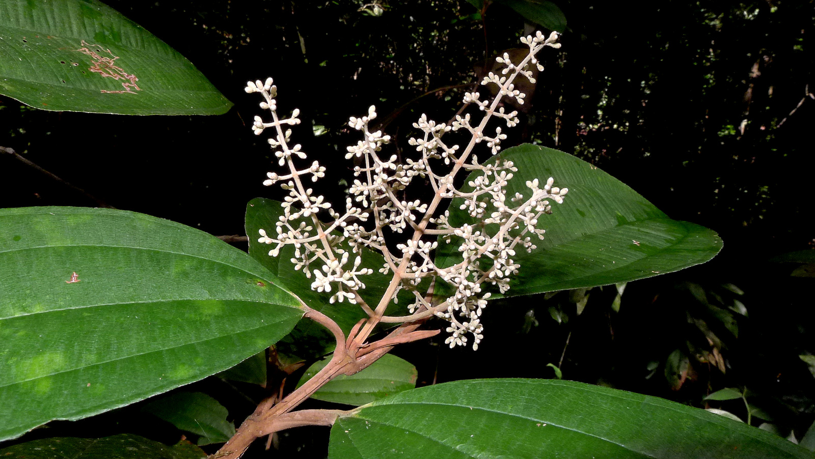 Miconia hypoleuca (Benth.) Triana